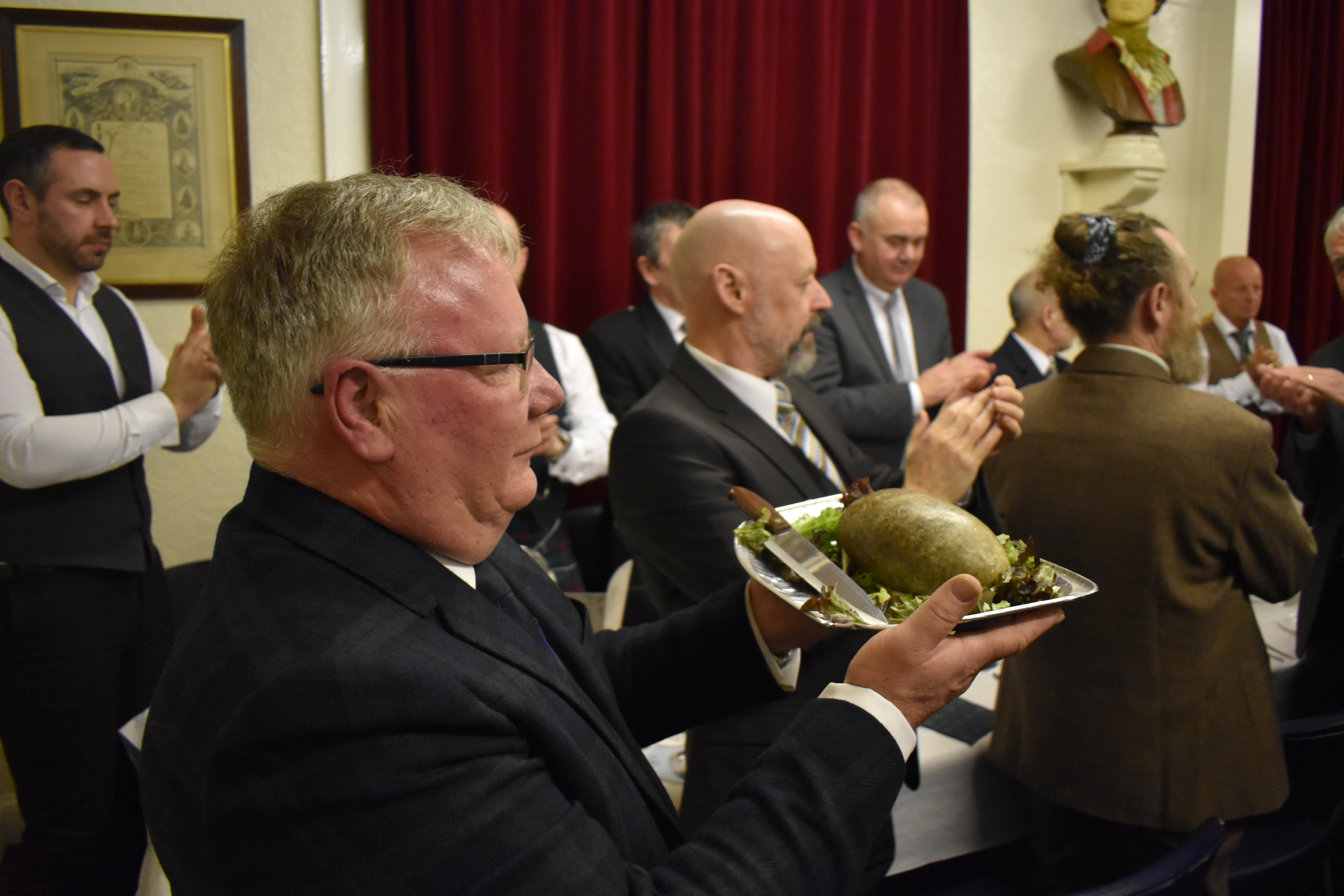 A haggis being brought in at Dundee Burns Club's 160th annual Burns supper on 25 January 2020.